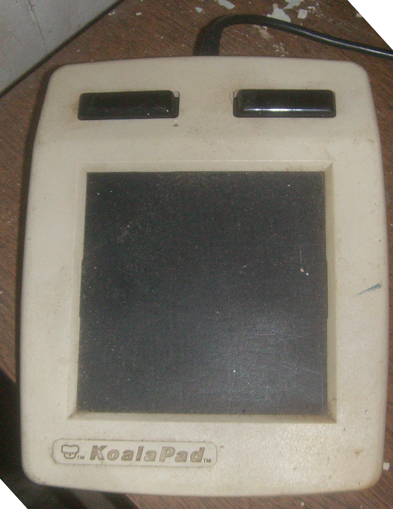 Image of a Koala Pad